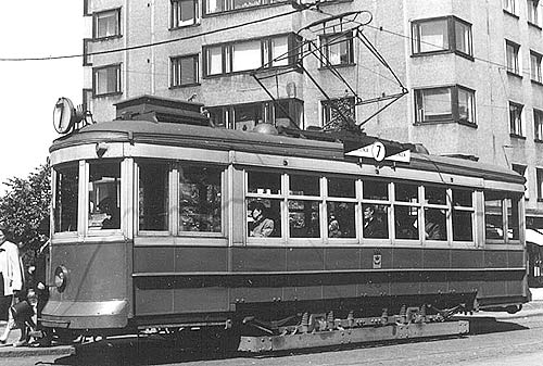 Brill/GE tram no. 76 on line 7 in Helsinki